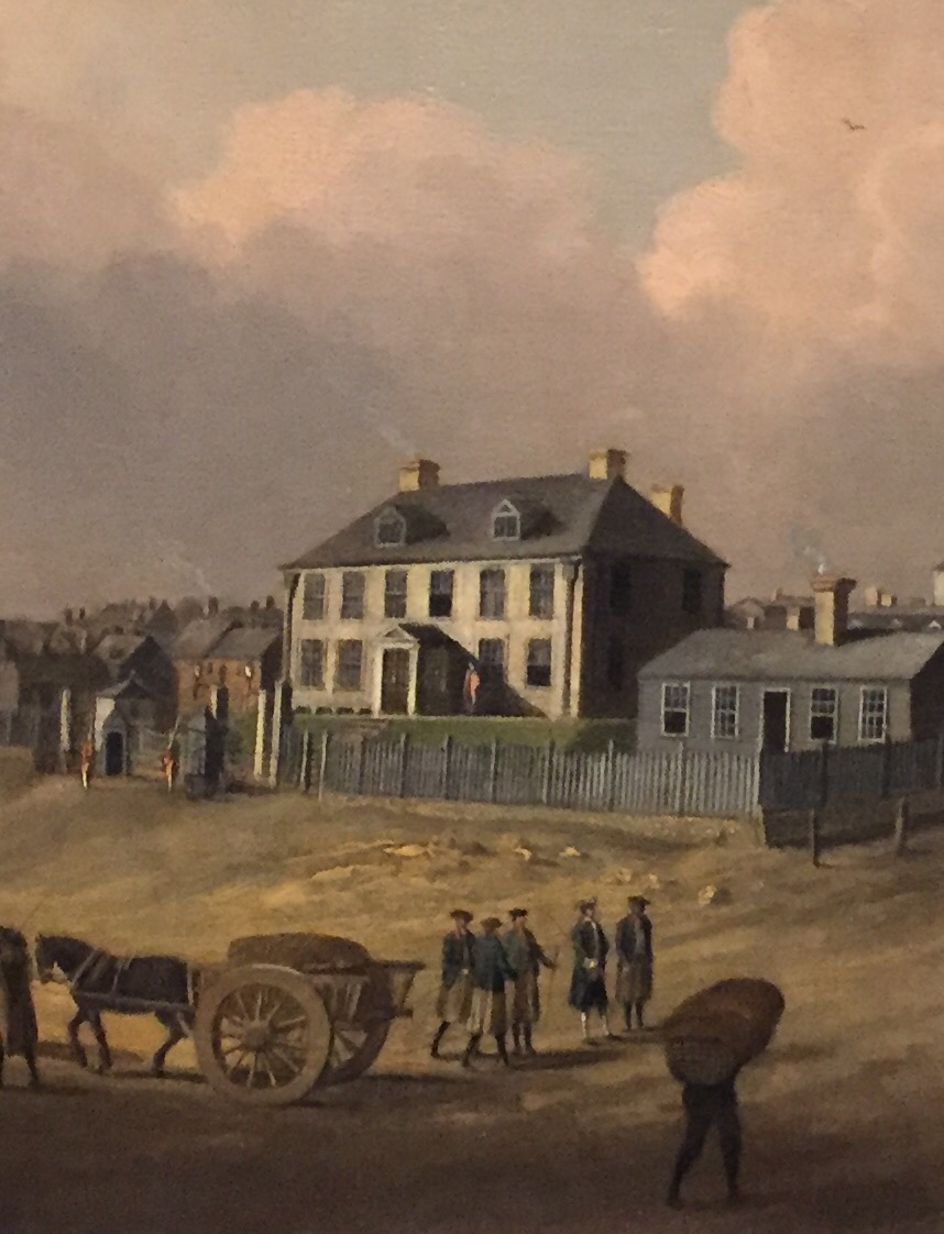 Governor's House, Halifax, Nova Scotia (inset) by Dominic Serres, c. 1765